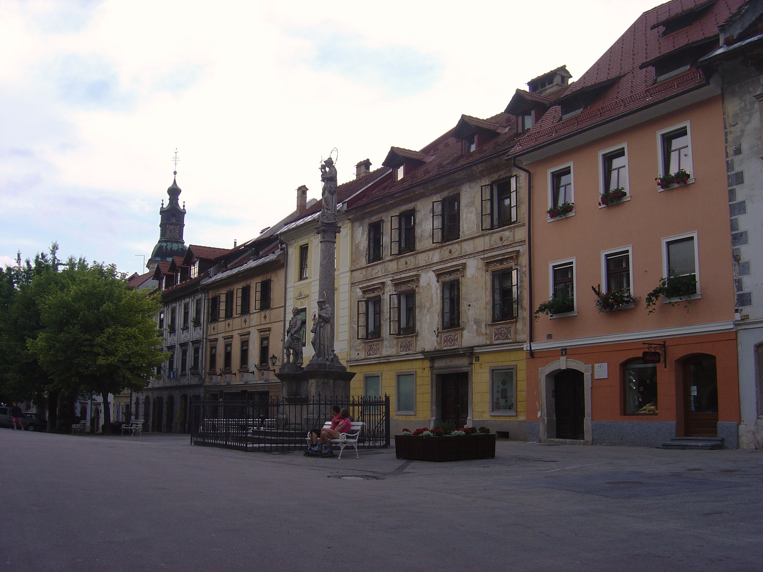 Škofja Loka, Slovenia